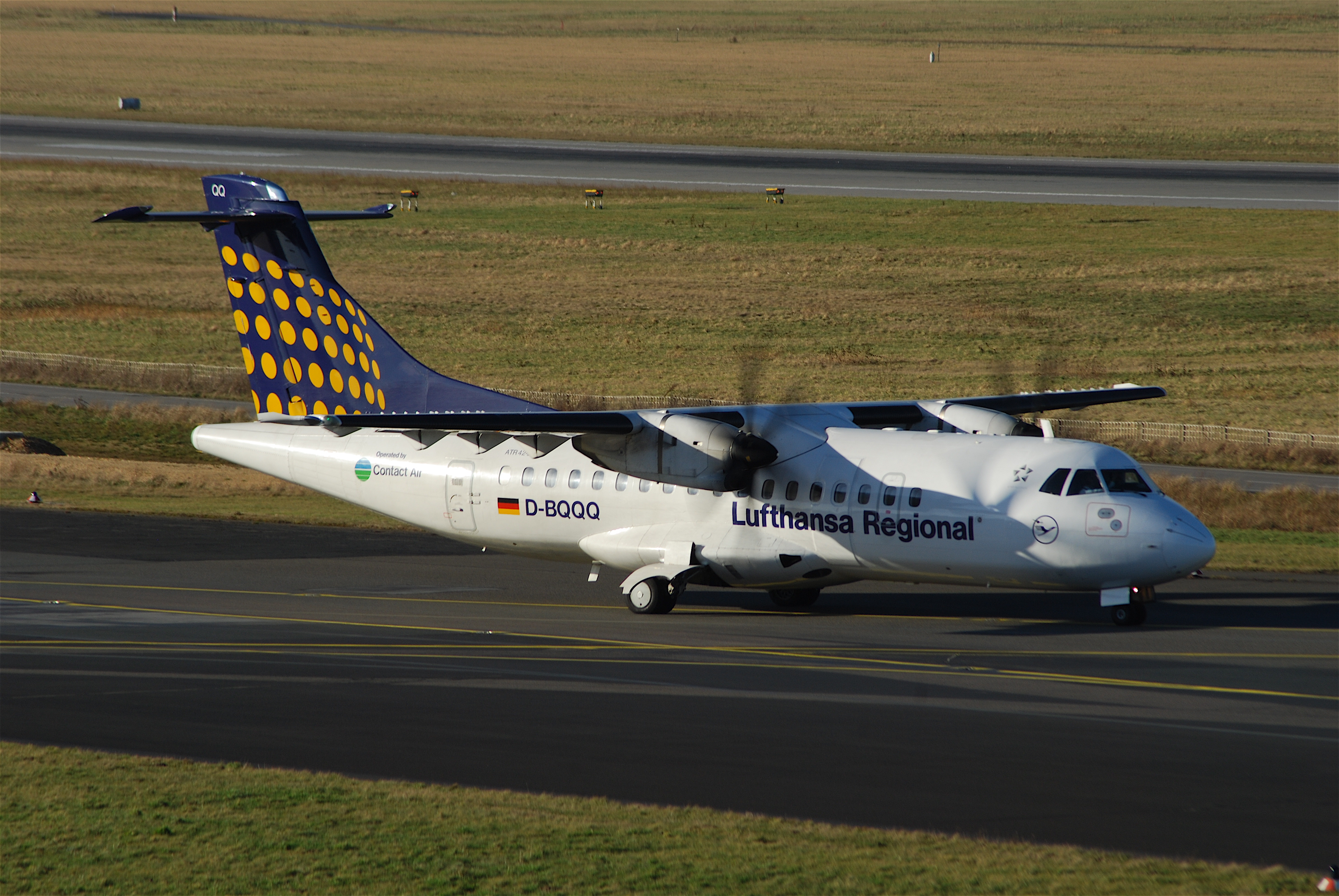 Contact Air ATR 42; D-BQQQ@DUS;13.01.2008/492iw